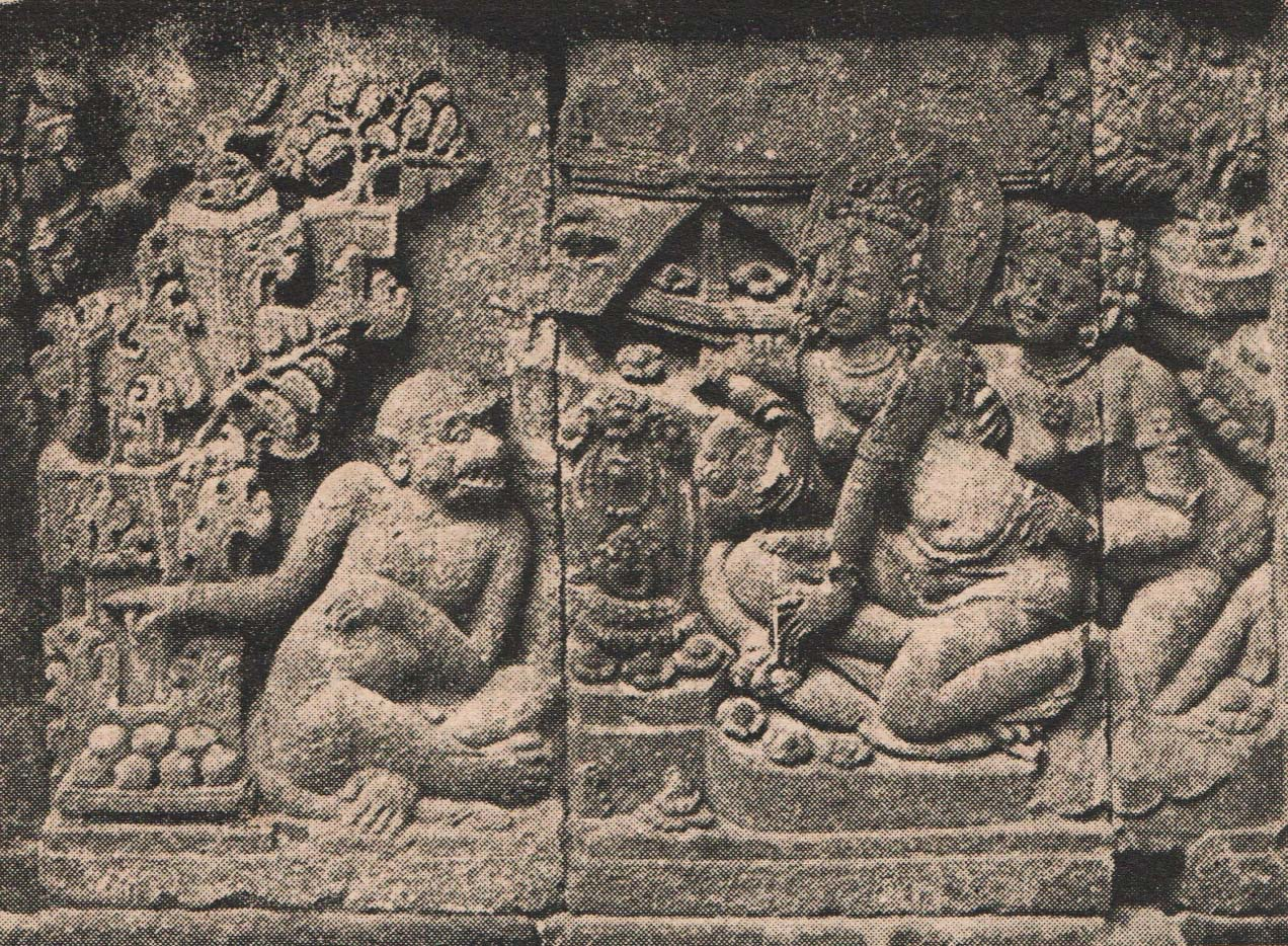 Relief on Prambanan - Hanuman meeting Sita